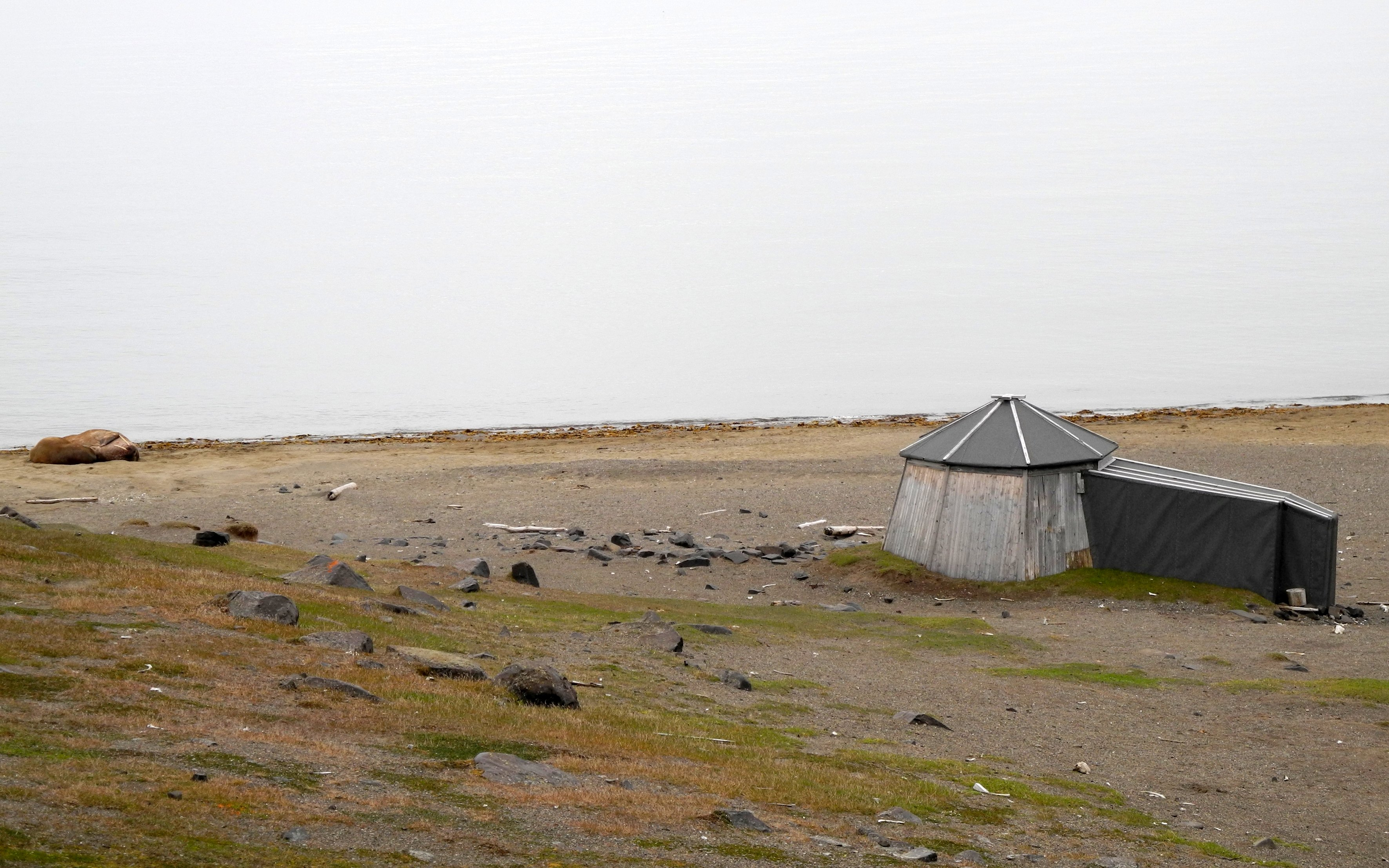 Cabin Karusælen at Kapp Lee / Dolerittneset (Edgeøya) and two walruses on the beach.